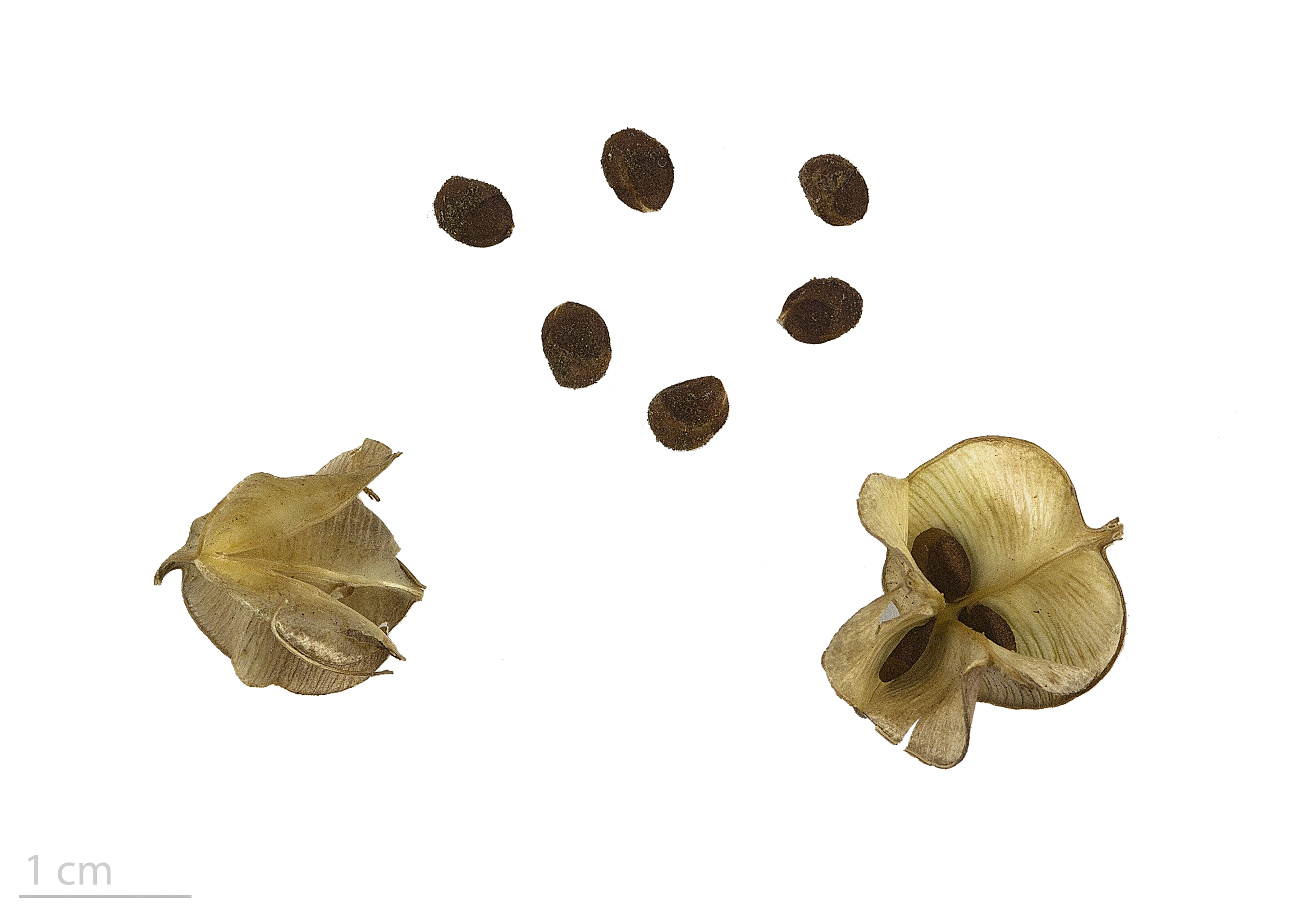 Dioscorea pyrenaica, , seeds